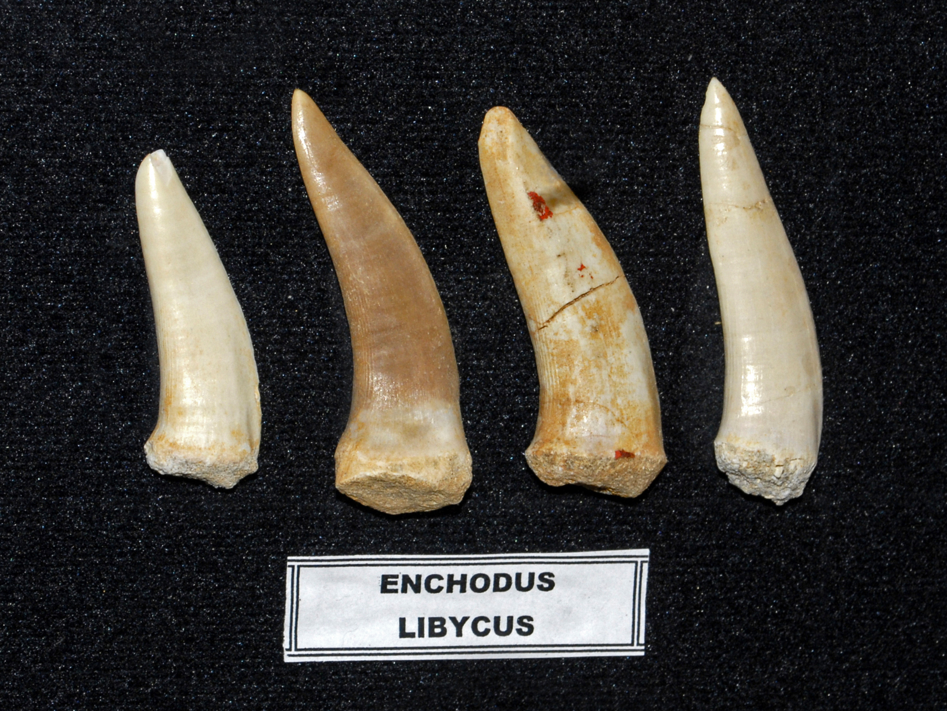 Fossil teeth of "Enchodus libycus" from Khouribga (Morocco)